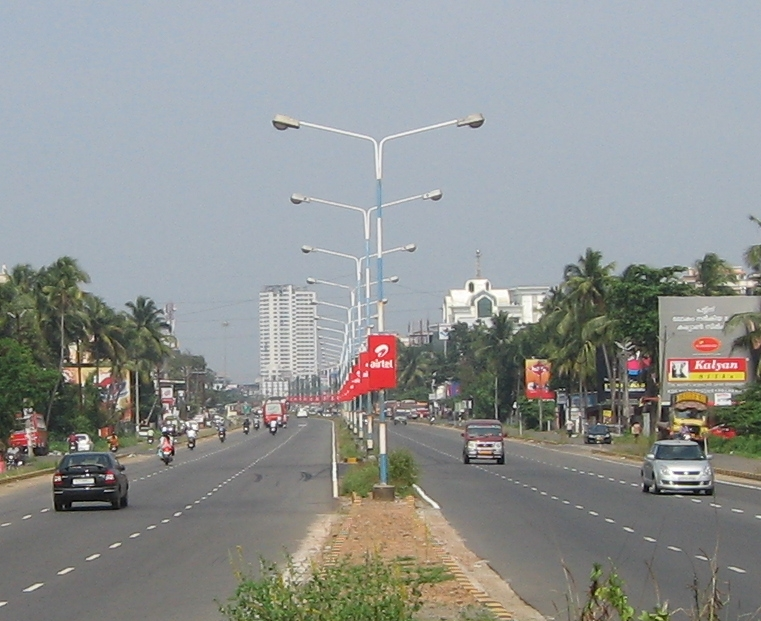 The Six lane section of Kochi Bypass near Vytila